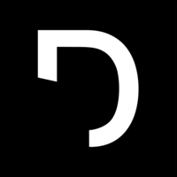 Divergente